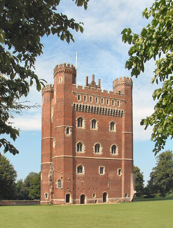 Tattershall Castle is one of a complex of buildings built by Ralph, Lord Cromwell, in the late 15th century and which also included Tattershall College, the collegiate church and the Almshouse.